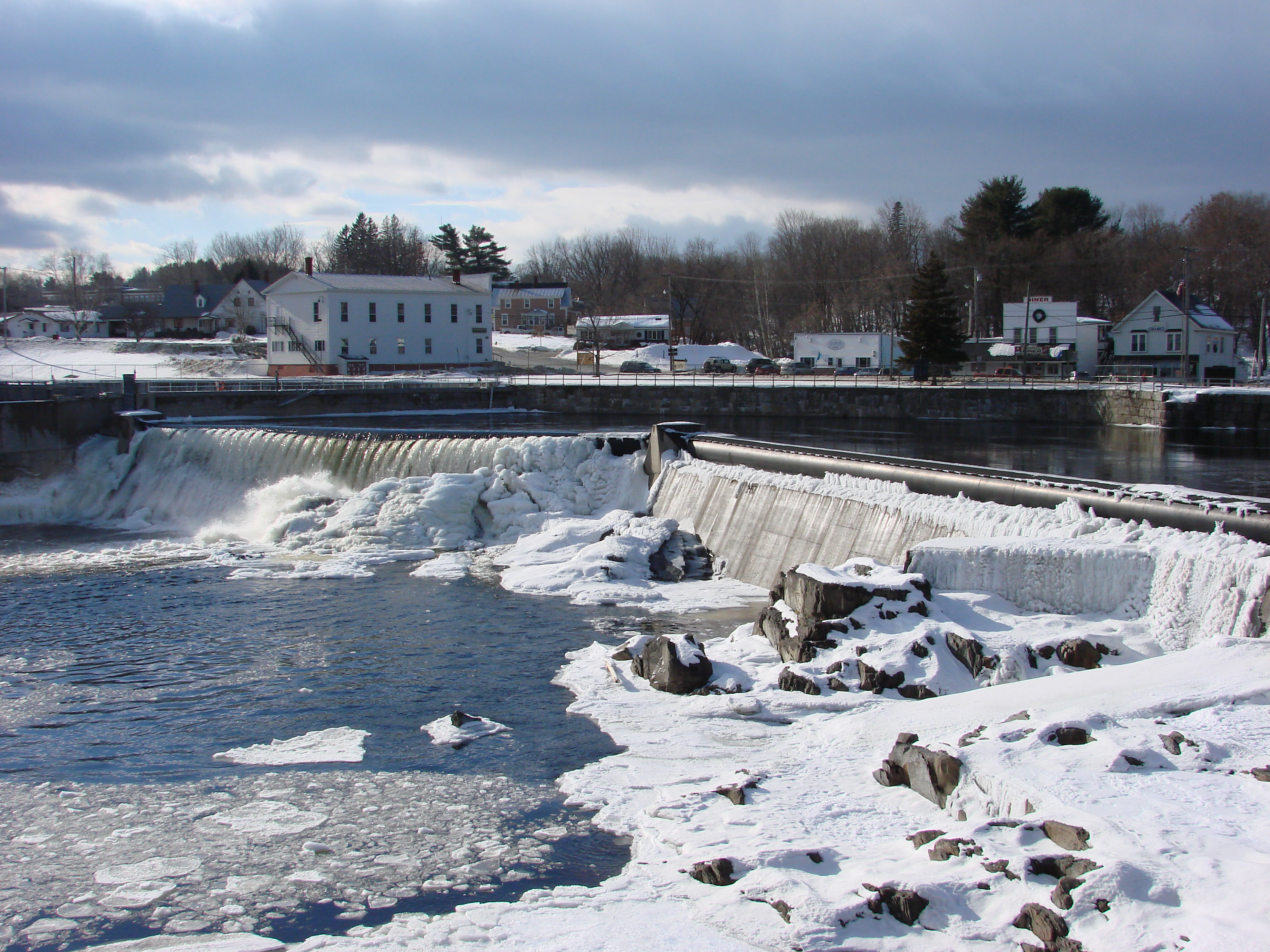 Anson Kennebec River